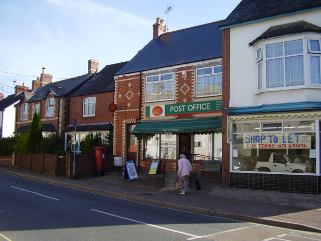 Post Office and Post box. Note the classic Edwardian brickwork. The vacant premises was formerly the local butcher. There is not a car for sale but an unplanned-for reflection. The cars are on a forecourt behind the photographer.